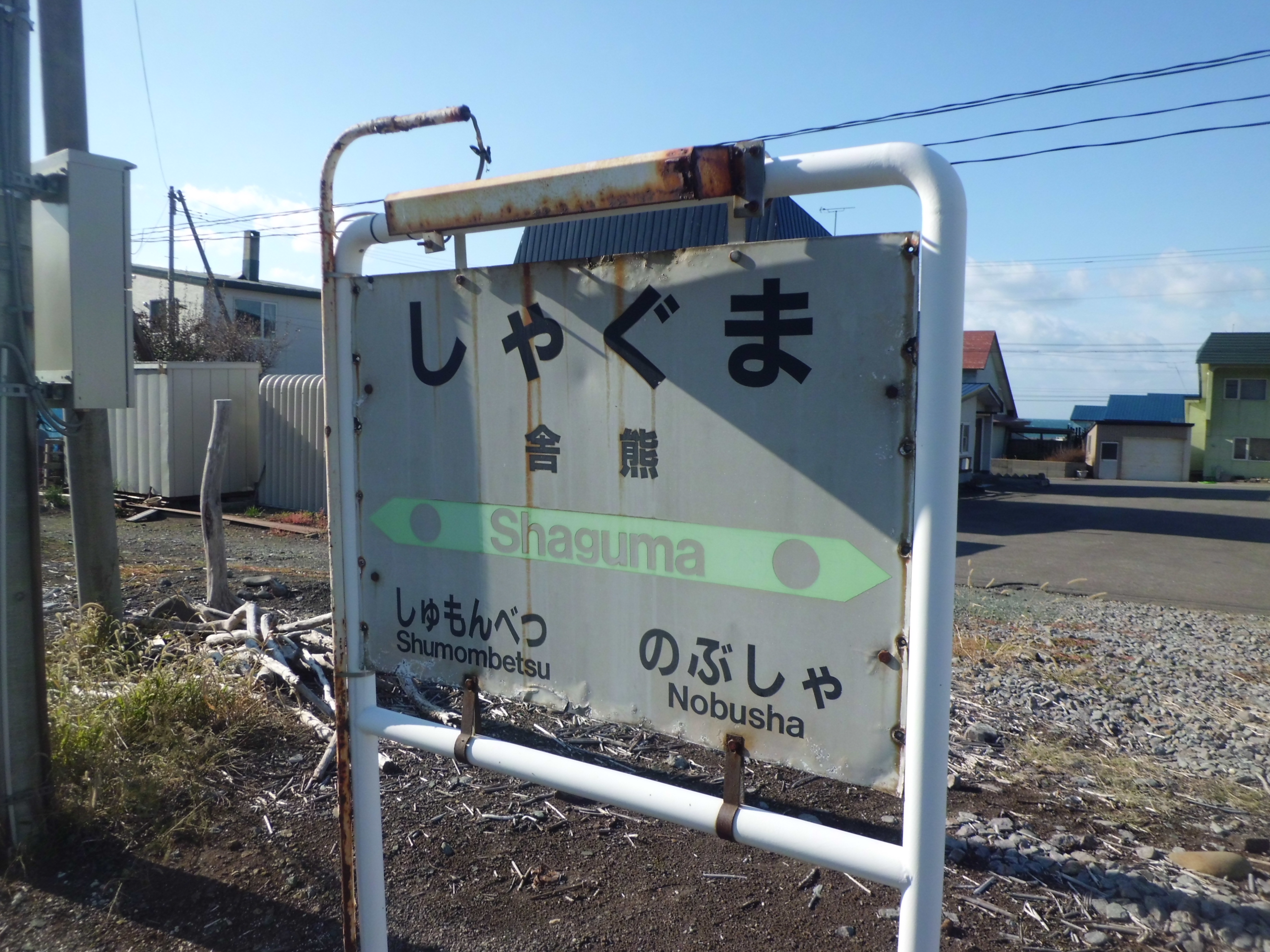 Station sign of Shaguma Station